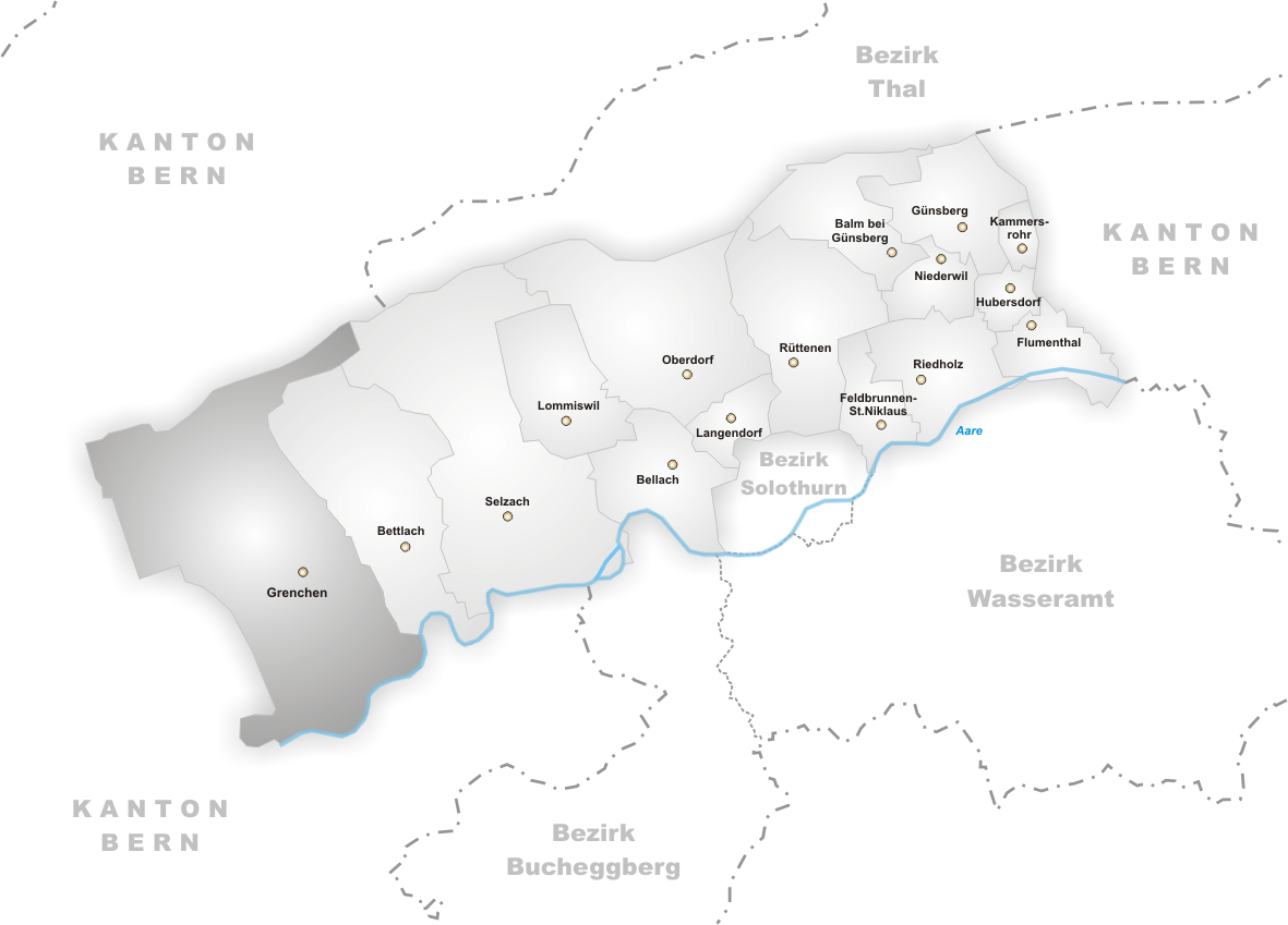 Municipality Grenchen